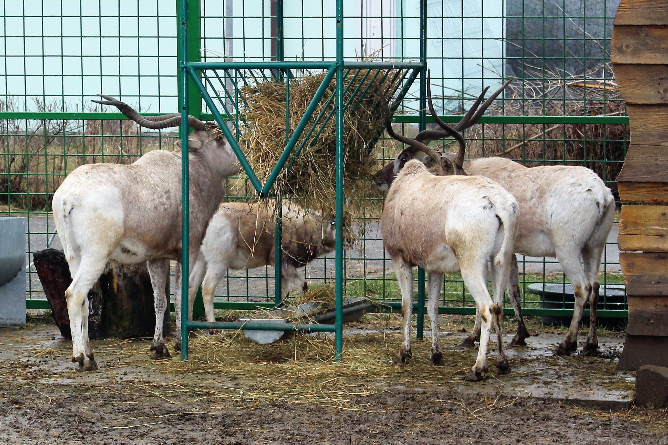 Addax, white antelopes or screwhorn antelopes (Addax nasomaculatus) in Nagyvárad Zoo, Transylvania.